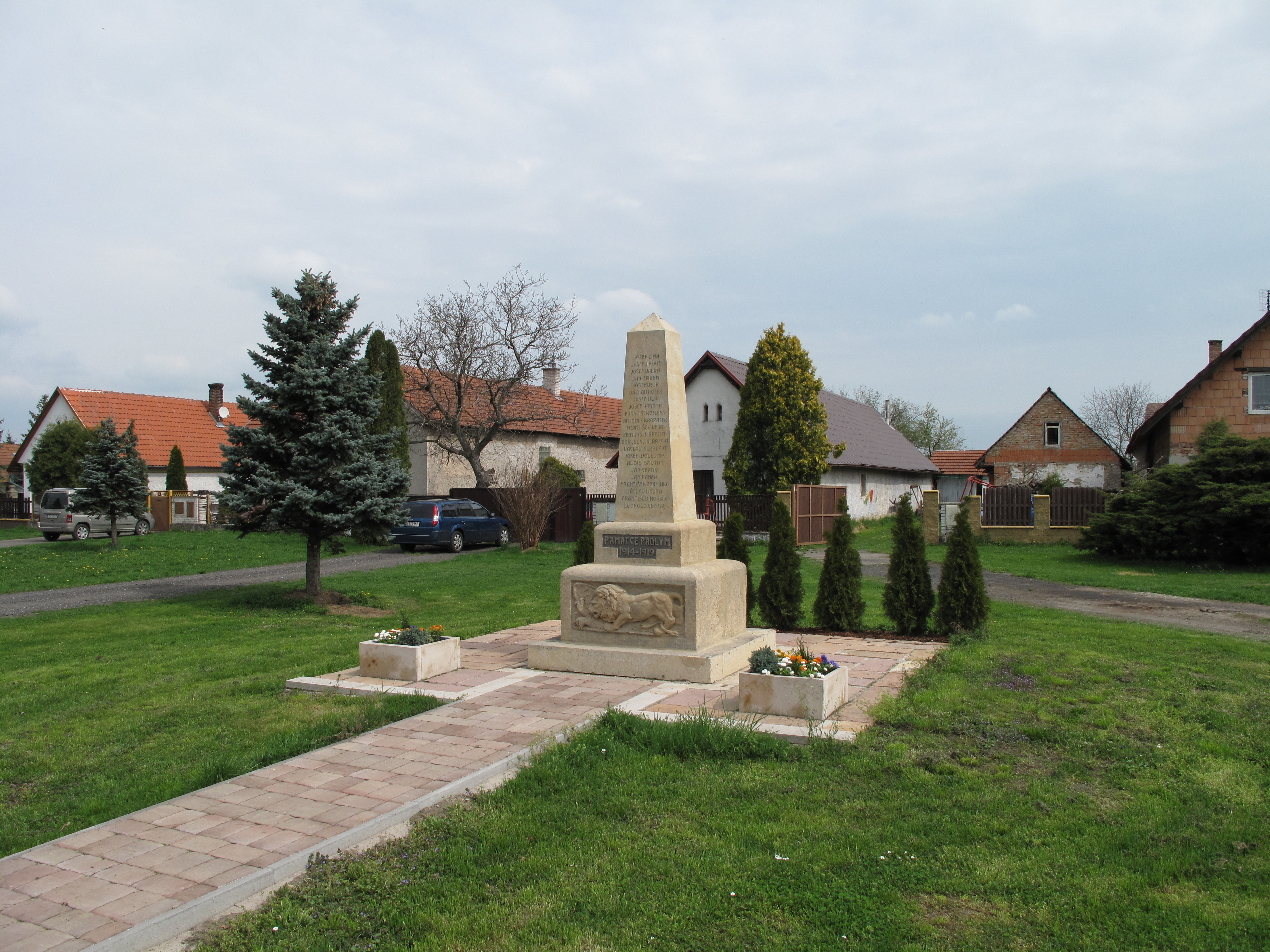 World war I memorial in Kněžičky village, Nymburk District, Czech Republic.